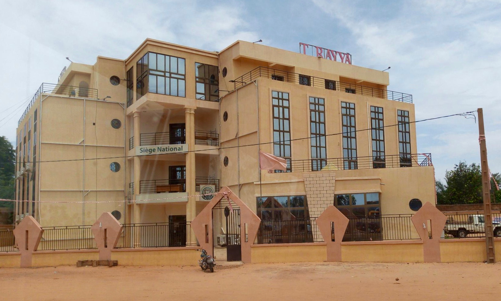 National headquarters of PNDS-Tarayya in Poudrière, Niamey.